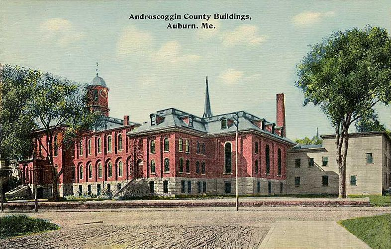 Androscoggin County Buildings, Auburn, ME; from a c. 1912 postcard. Designed by Boston architect Gridley James Fox Bryant, the Androscoggin County Courthouse was built in 1857. The Androscoggin Historical Society Museum is located on the third floor.